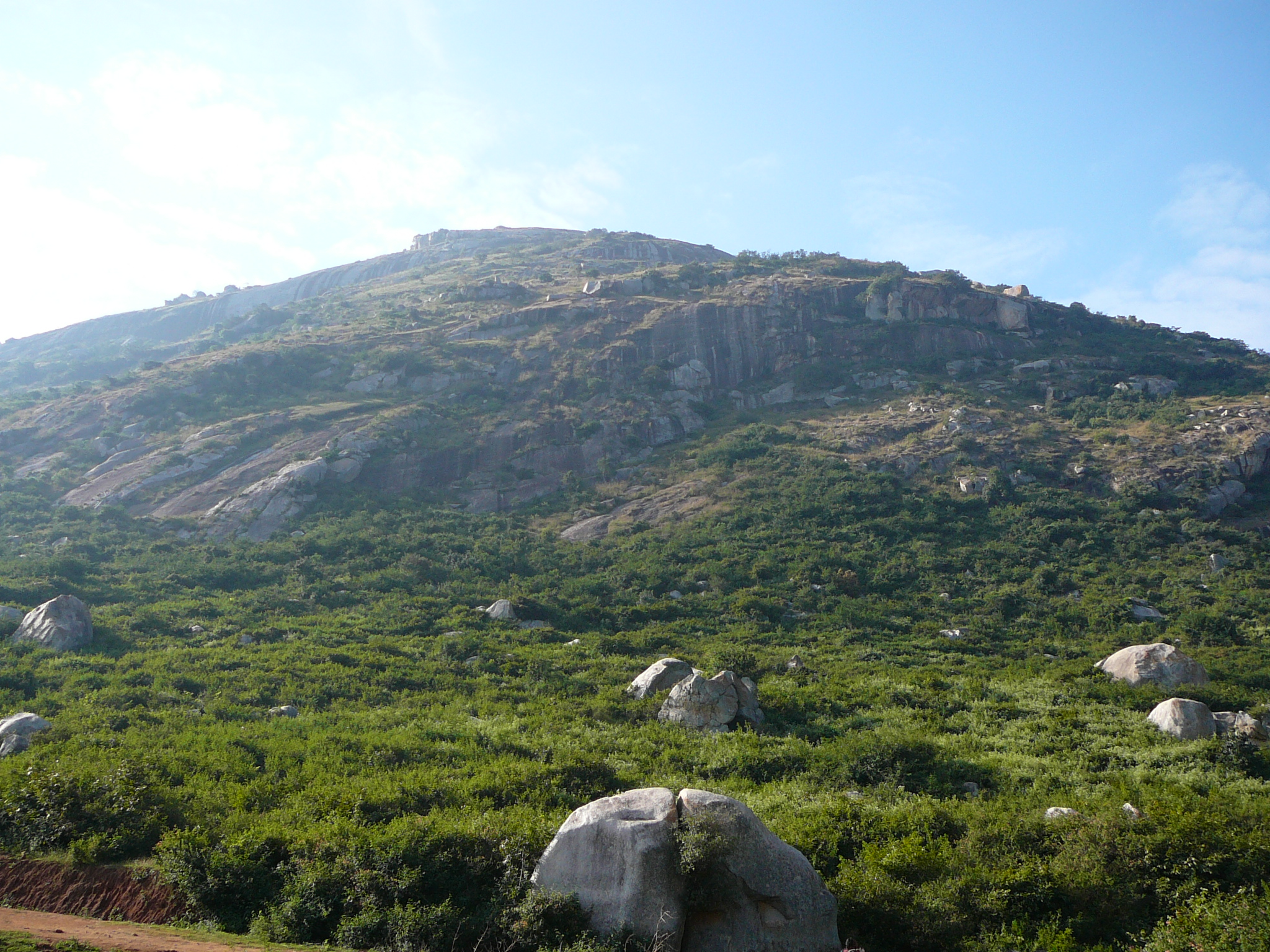 Snap taken by myself